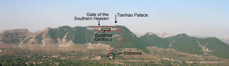 Tuoshan - Photo map of the site. Photo/Map of TuoShan by me.